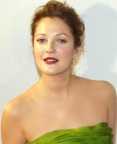 Drew Barrymore 2